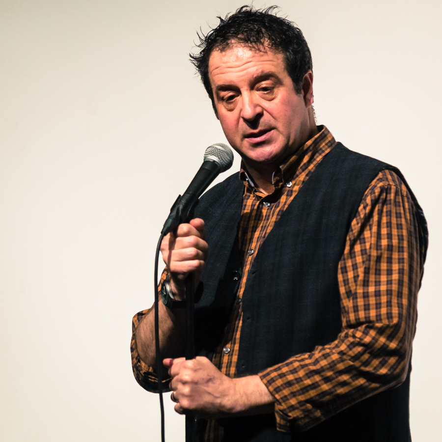 Mark Thomas performing at the Crap Comedy Festival in January 2016. The festival takes place at Parkteateret in Oslo.